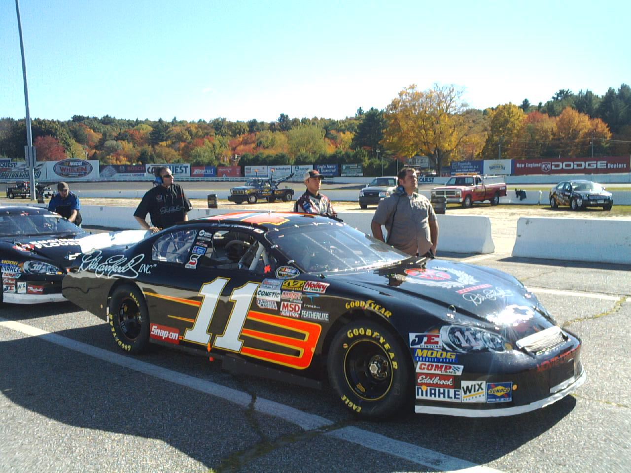 Jesus Hernandez waits to qualify at Stafford Motor Speedway in 2008.